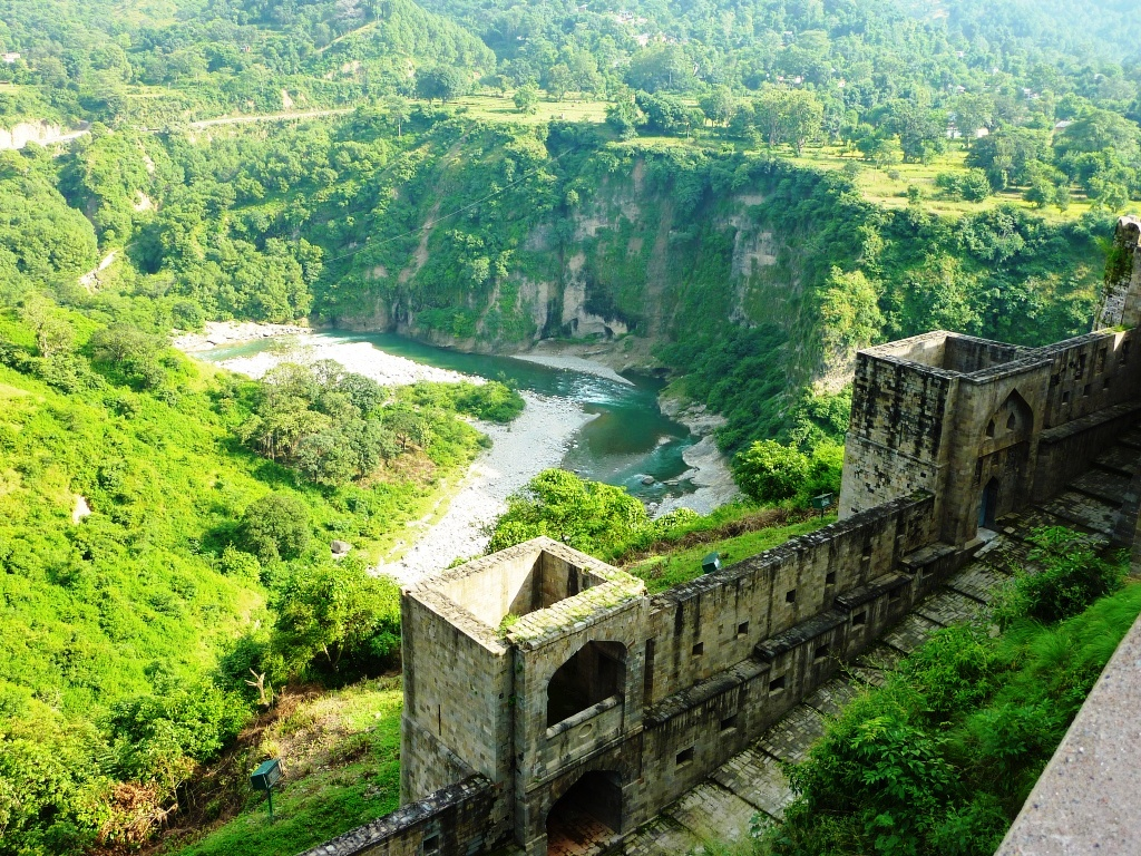 I took this photo on my last trip to India in 2010